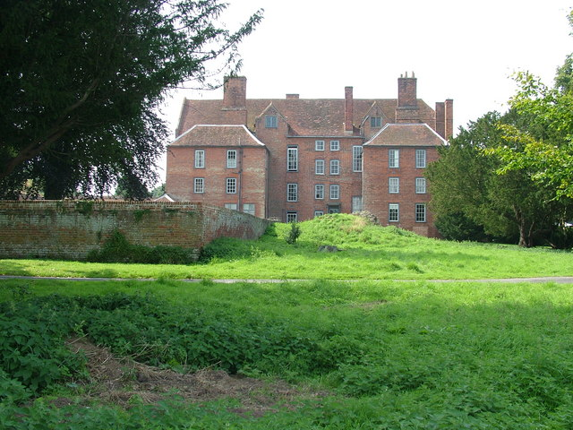 Glemham Hall, side view